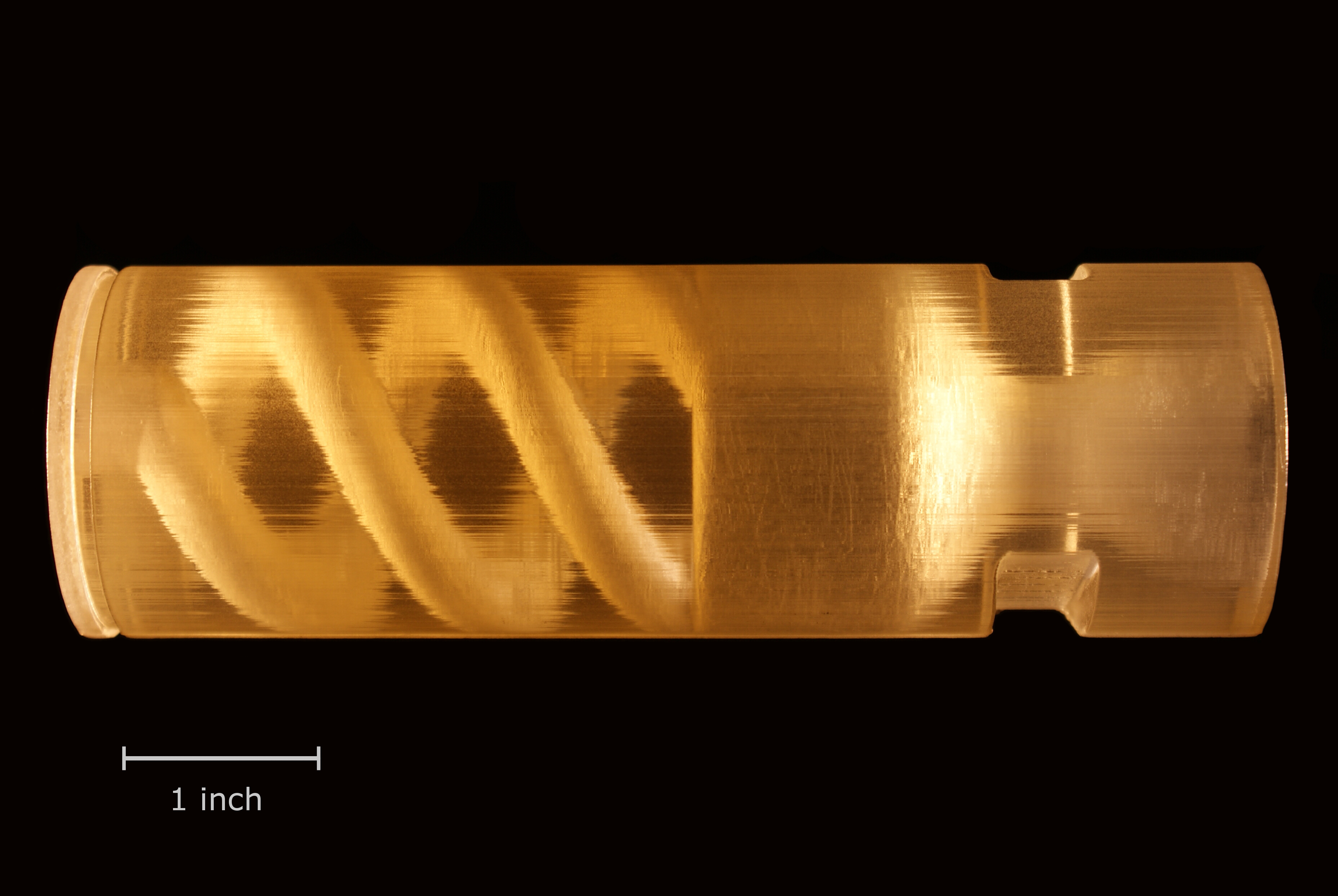 This is a 3D-printed fuel grain used in development testing at Purdue University for a hybrid rocket motor that would fit inside of a suitcase. The suitcase would be a portable education demonstrator, used for demonstrating rocket combustion. The motor used nitrous oxide as the oxidizer and pyrodex pellets for the igniter. The fuel grain pictured here also functions as the combustion chamber. Typical rocket motors (not used for demonstrations) have a case around the fuel grain in order to contain the pressure from the combustion events, however in this case, the fuel grain acts as the pressure vessel. The combustion events can be seen throughout the entire motor, including the nozzle.